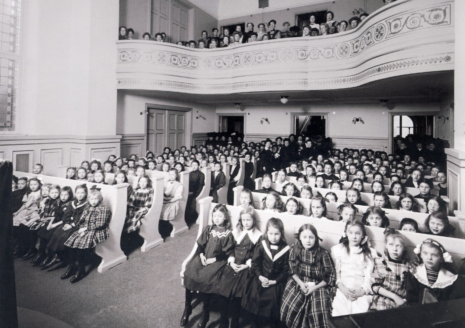 Prayer hall in Wallinska flickskolan (Wallin Girl's School) in Stockholm